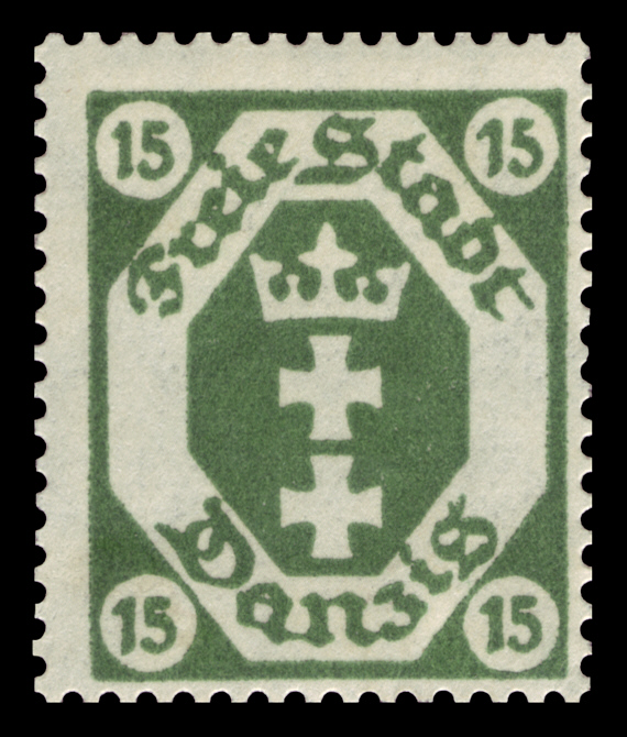 Air definitive stamp series Ausgabepreis: 15 Pfennig First Day of Issue / Erstausgabetag: 3. Juni 1921 Michel-Katalog-Nr: 75 (Danzig)